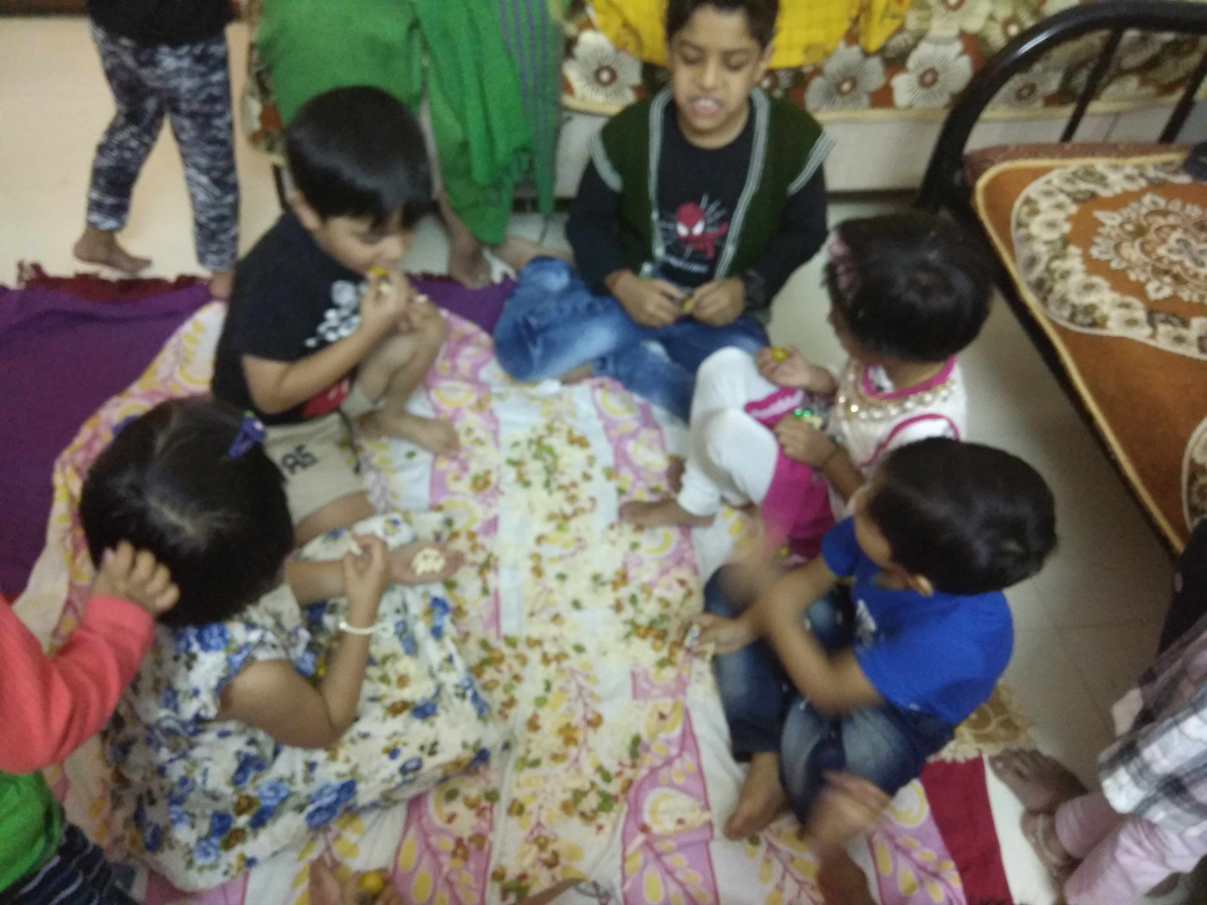 special occassion for children to velebrate makarsankranti